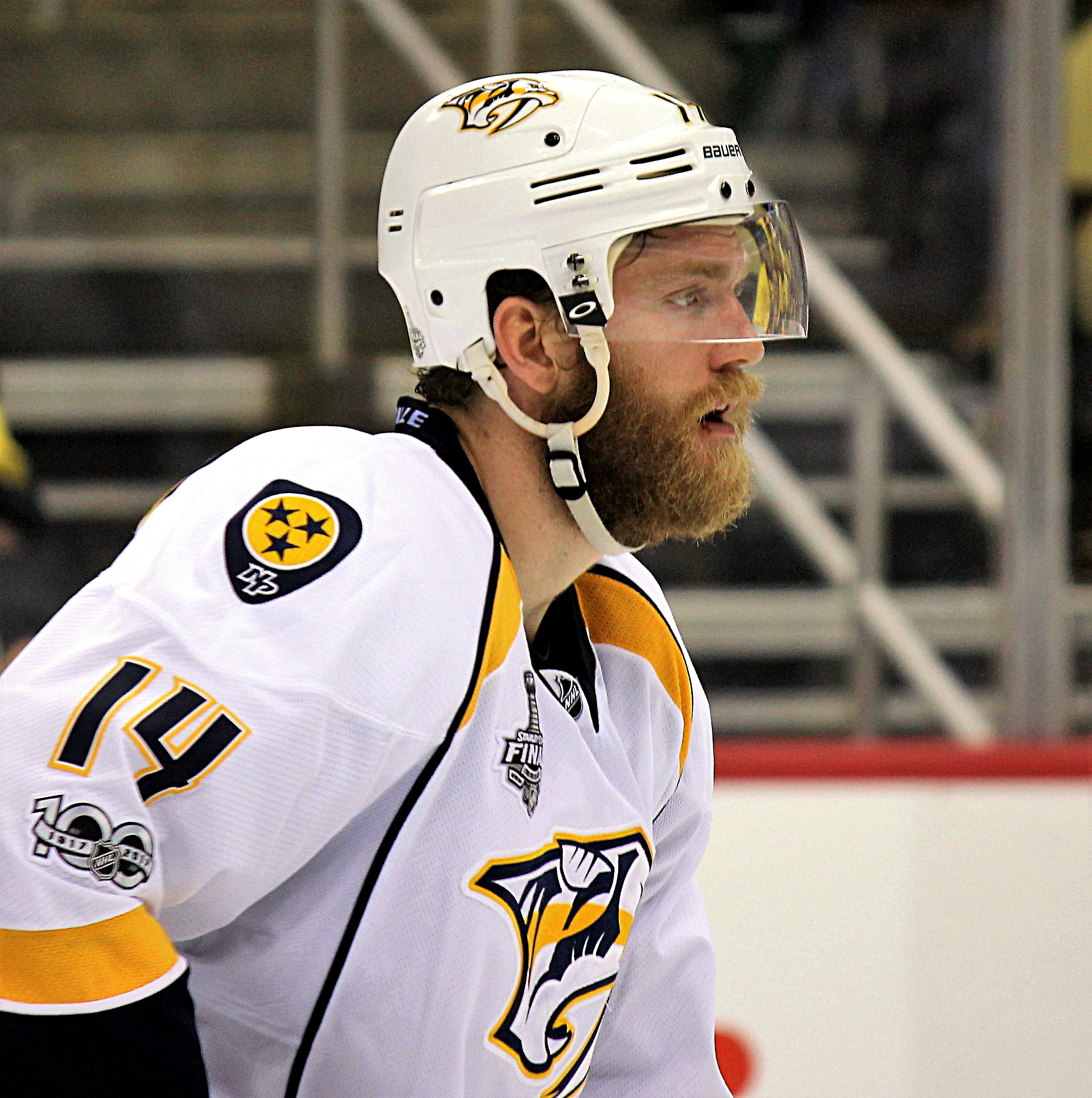 Nashville Predators defenseman Mattias Ekholm during game 5 of the Stanley Cup Final against the Pittsburgh Penguins, June 8, 2017, at PPG Paints Arena in Pittsburgh, PA.